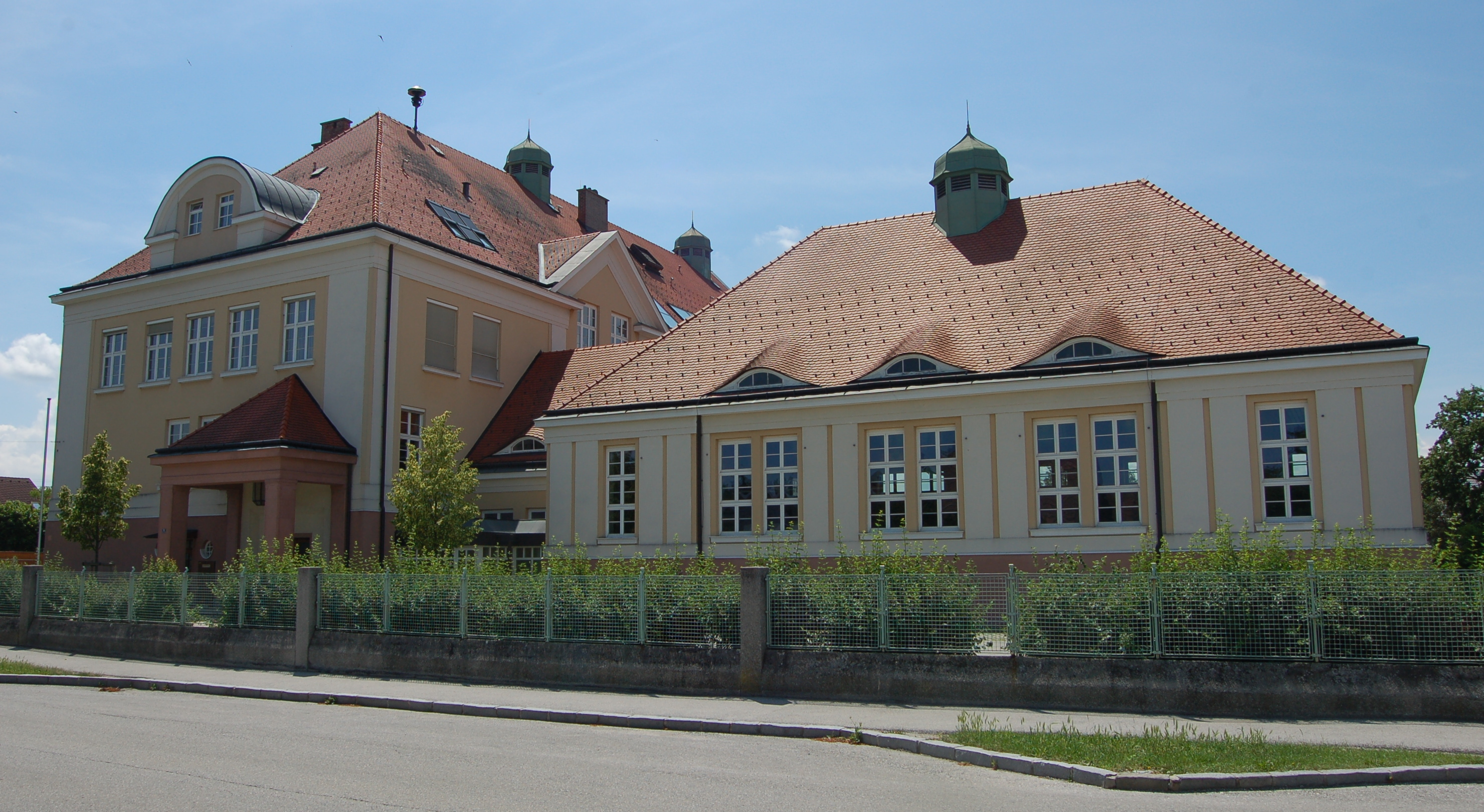 Pestalozzi school in Schneeberggasse, Wiener Neustadt